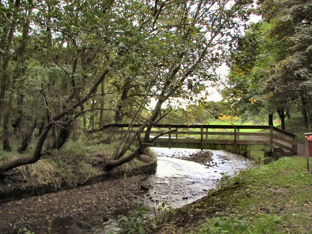 Footbridge over the River Irk, in Chadderton, Greater Manchester, England.